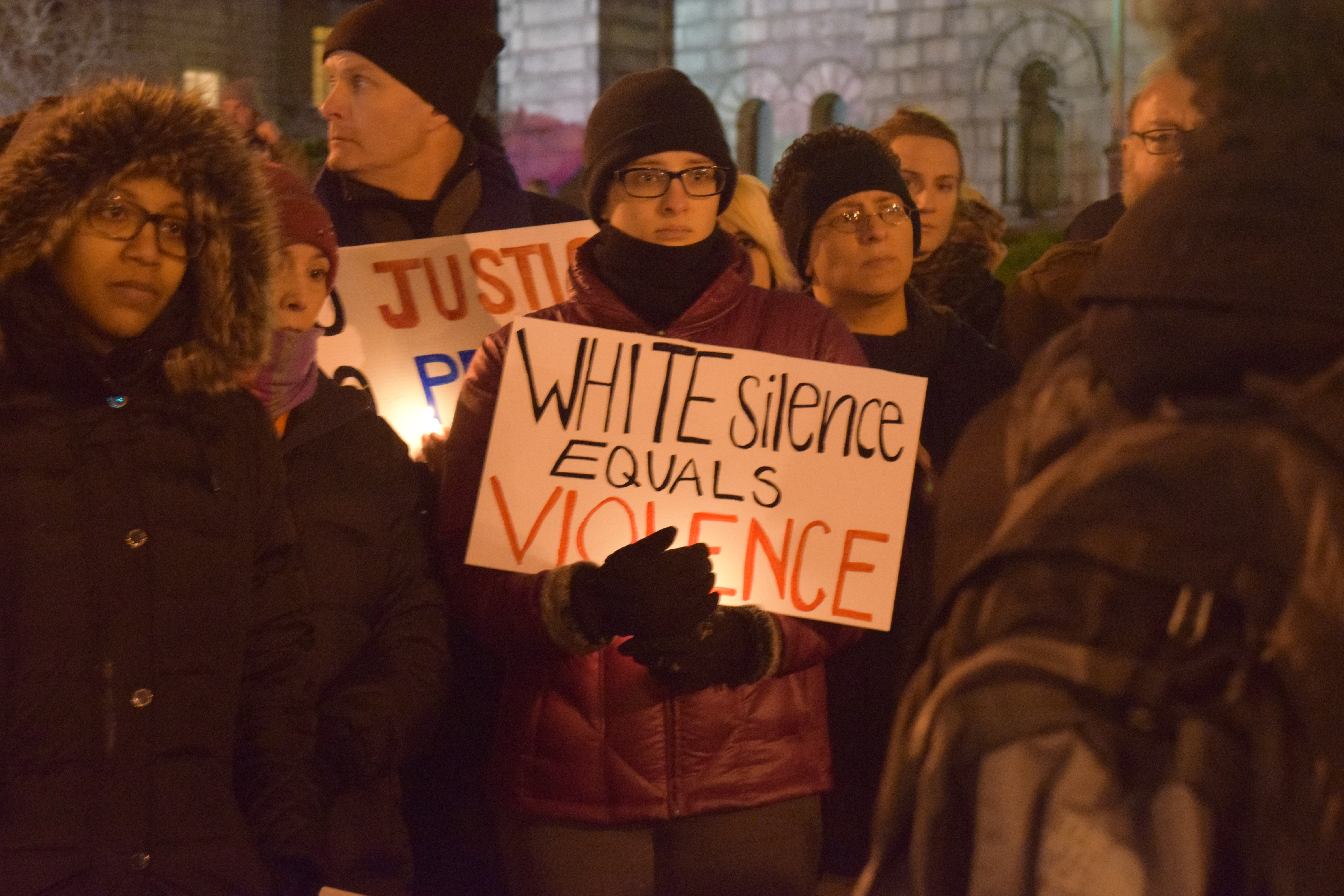 People hold a vigil for Antonio Martin outside the Cathedral Basilica of St. Louis